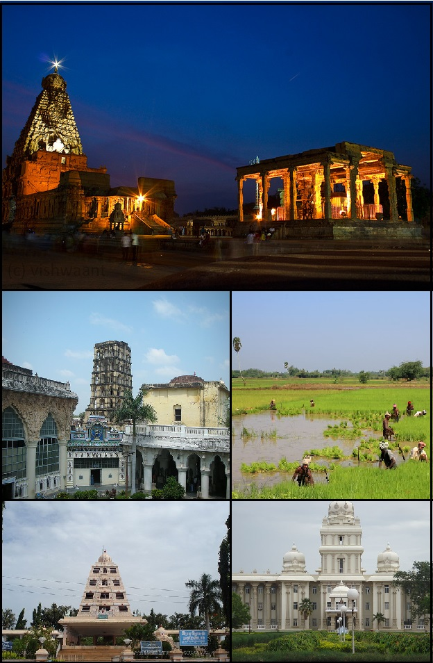 Thanjavur montage